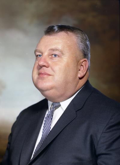 Senator Gordon Sandison, 1967